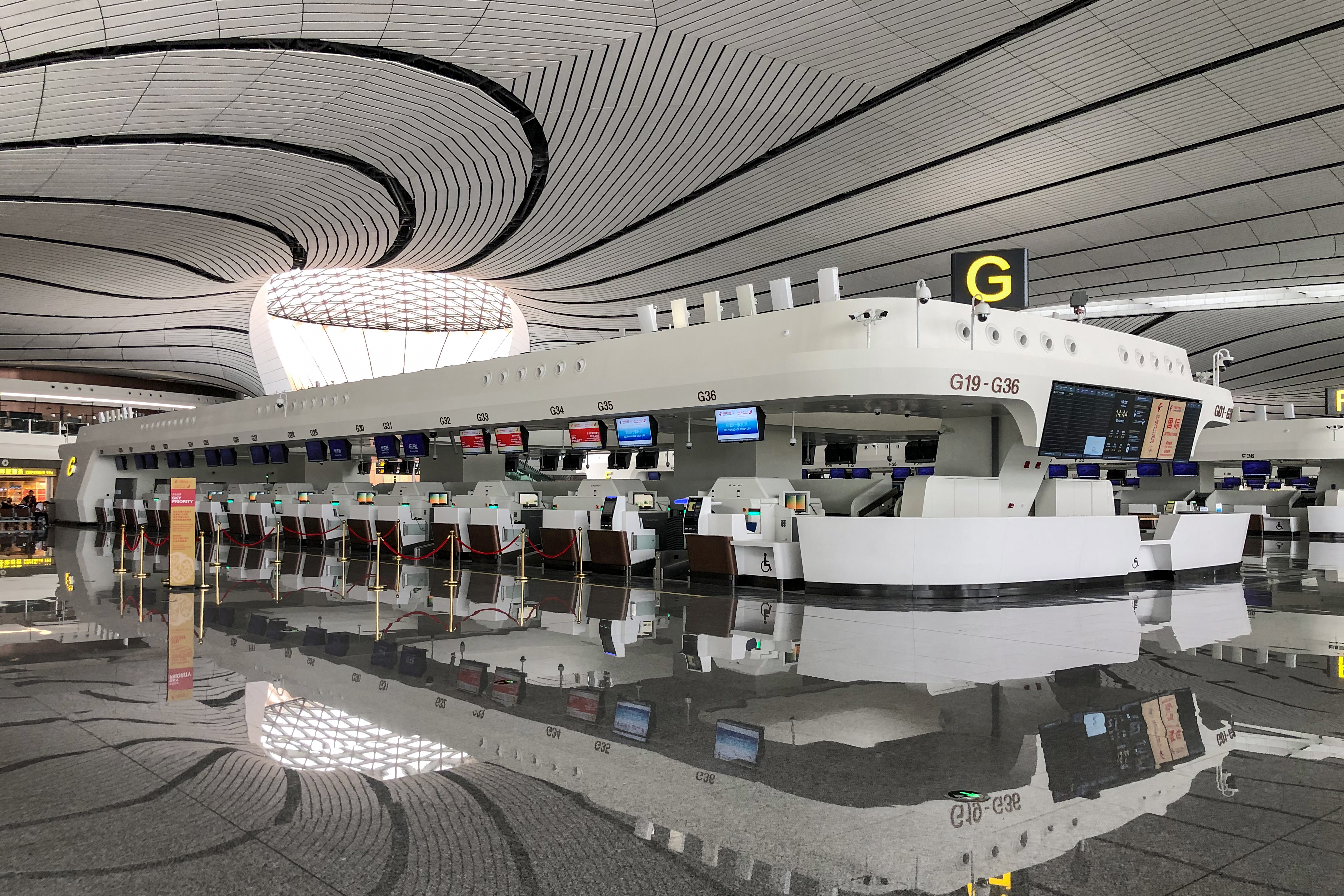 This is international zone, maybe.